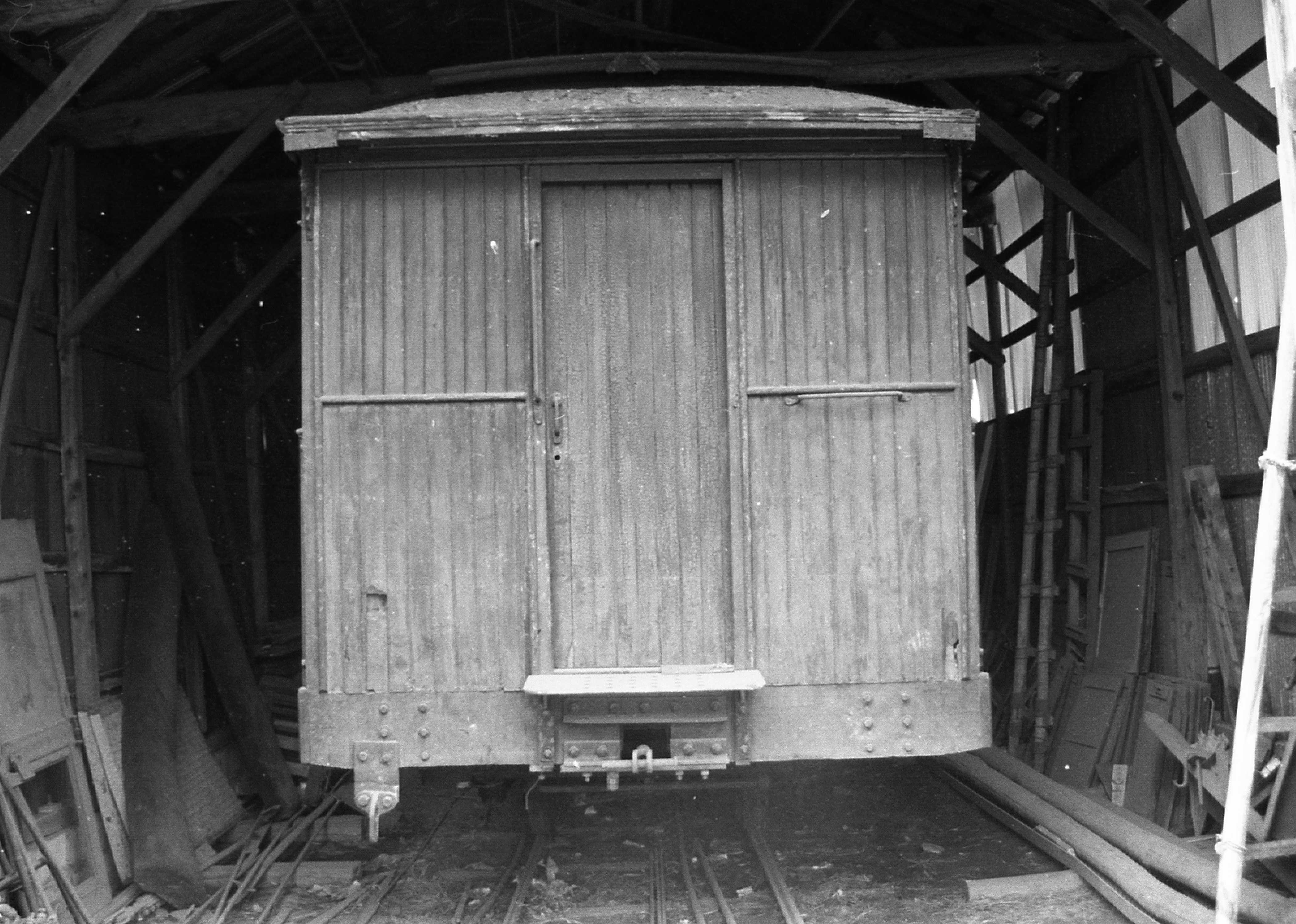 Matsuden Hanifu 1 front